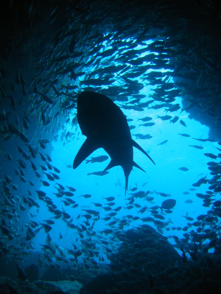 A Grey Nurse shark (Carcharias taurus) silhouetted against the mouth of Fish Rock Cave, South West Rocks, NSW, Australia